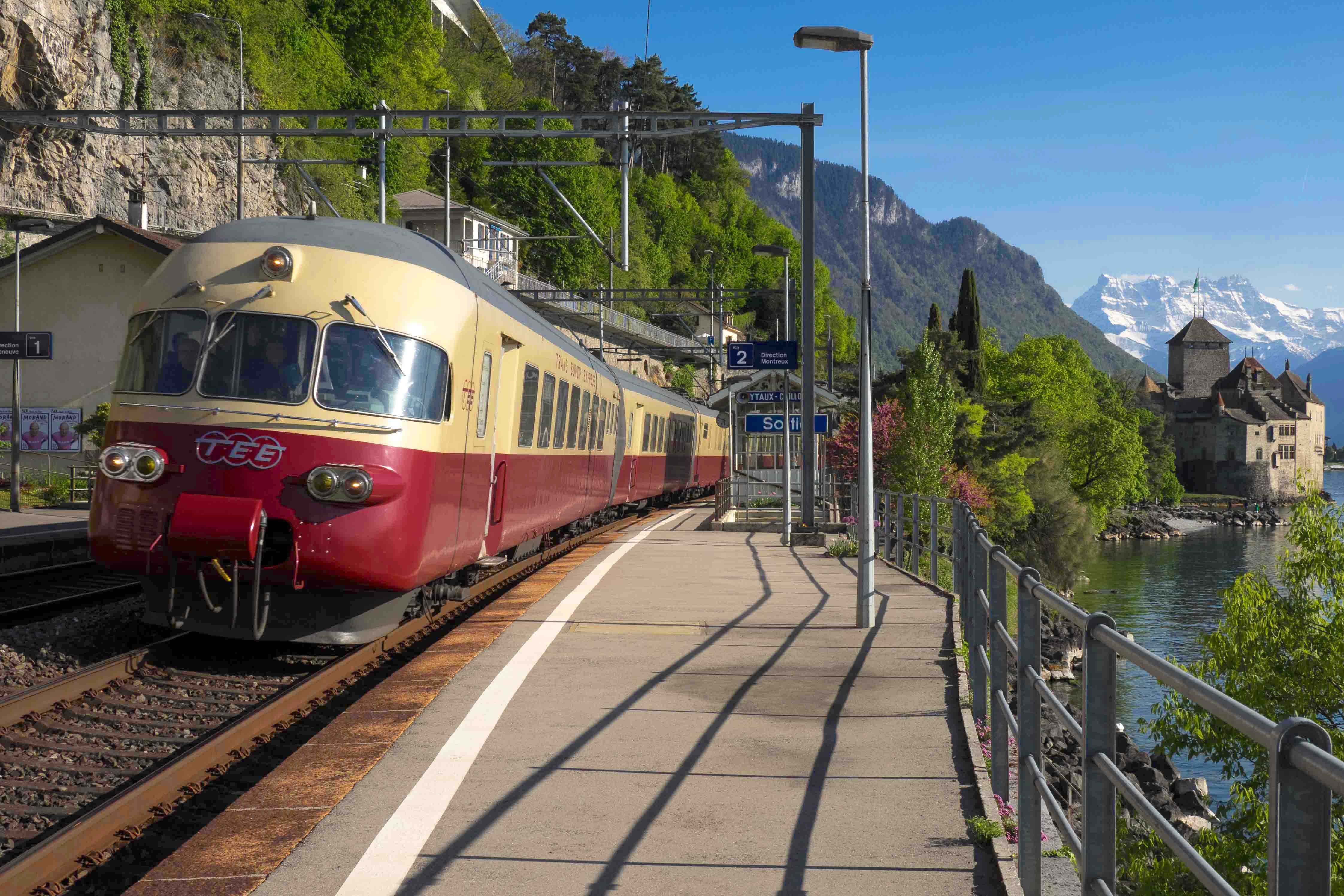 Preserved, historic SBB-CFF-FFS RAe TEE II train set 1053 passing through Veytaux-Chillon station, with Chillon Castle in the background.